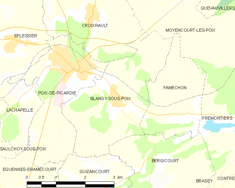 Map of French municipality Blangy-sous-Poix